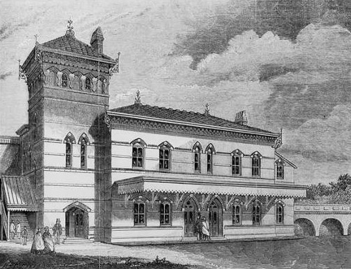 An illustration of Herne Hill station in 1863, one year after its opening.